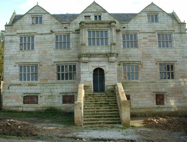 Clegg Hall restored